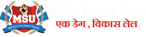 Mithila Student Union is a non-political organization, stand for development of mithila and maithil .